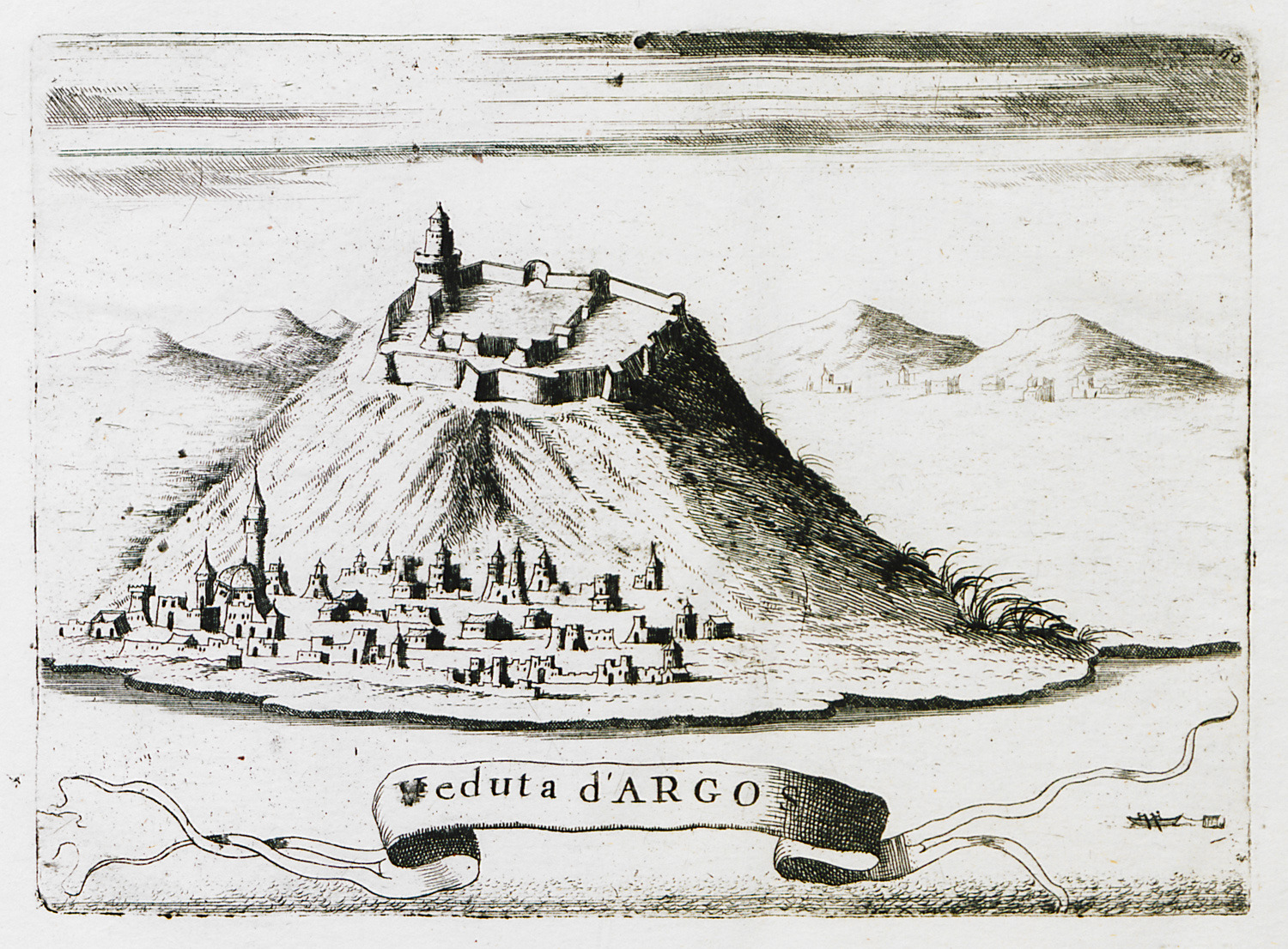 Vincenzo Coronelli. Morea, Negroponte & Adiacenze, Venice, ca. 1708